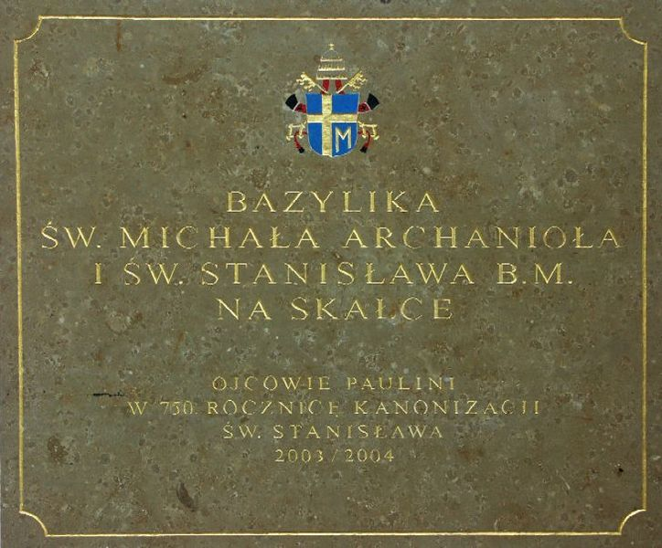 Church of St. Stanislaus in Kraków